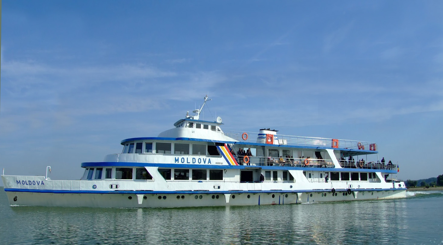 Fluvial motorship Moldova of the romanian Navrom company